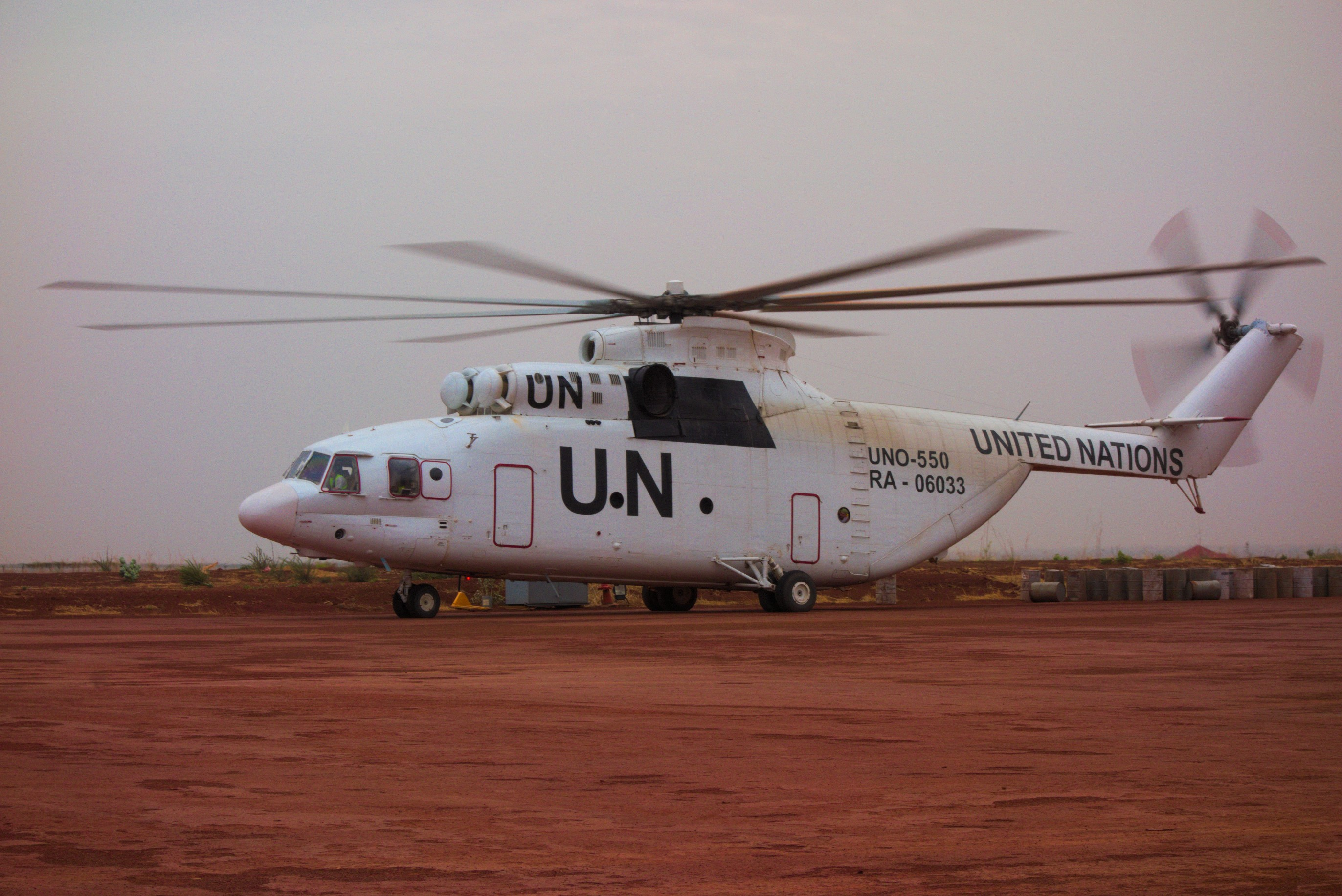 Mil Mi-26 assigned to UNMISS (UNO 550P) at Wau Airport (ESWW, WUU), South Sudan. Fuel transport to Rubkona